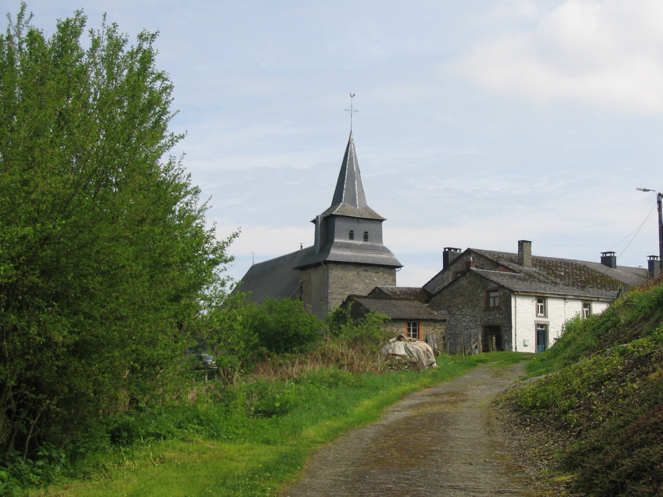 Church of Oizy. Oizy, Bièvre, Namur, Belgium